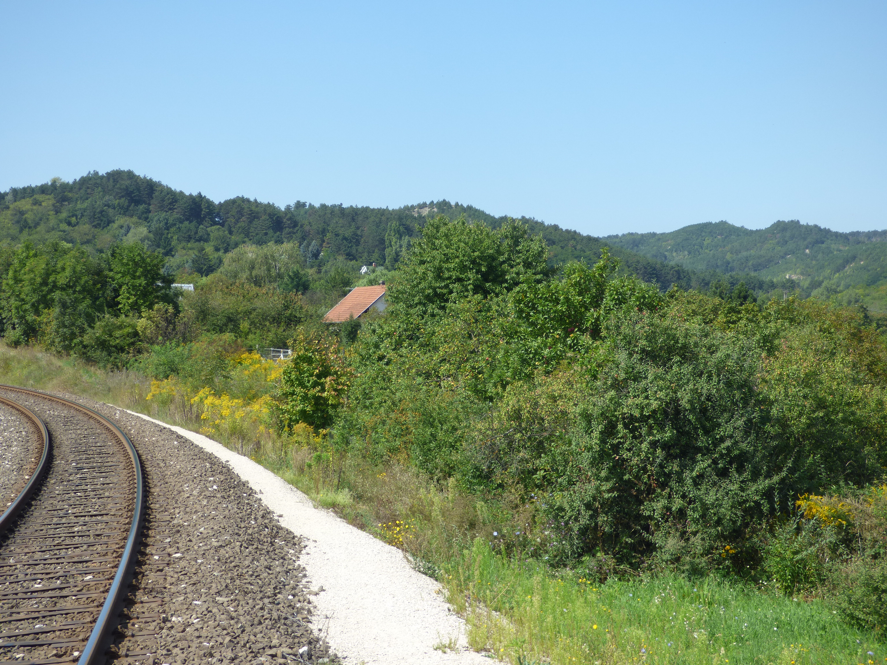 A Zajnát-hegyek északi része Szabadságliget megállóhely felől